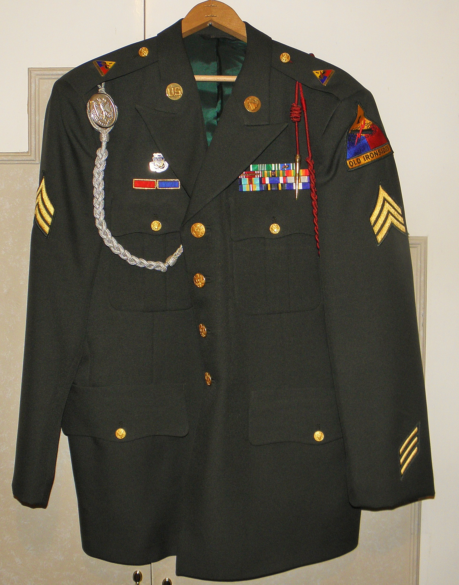 US Army Class A Blouse with ribbons, "Silberner Schuetzenschnur" (equal to: Sharpshooter badge (United States)) shown in upper-left, Belgian fourragère shown in upper-right.